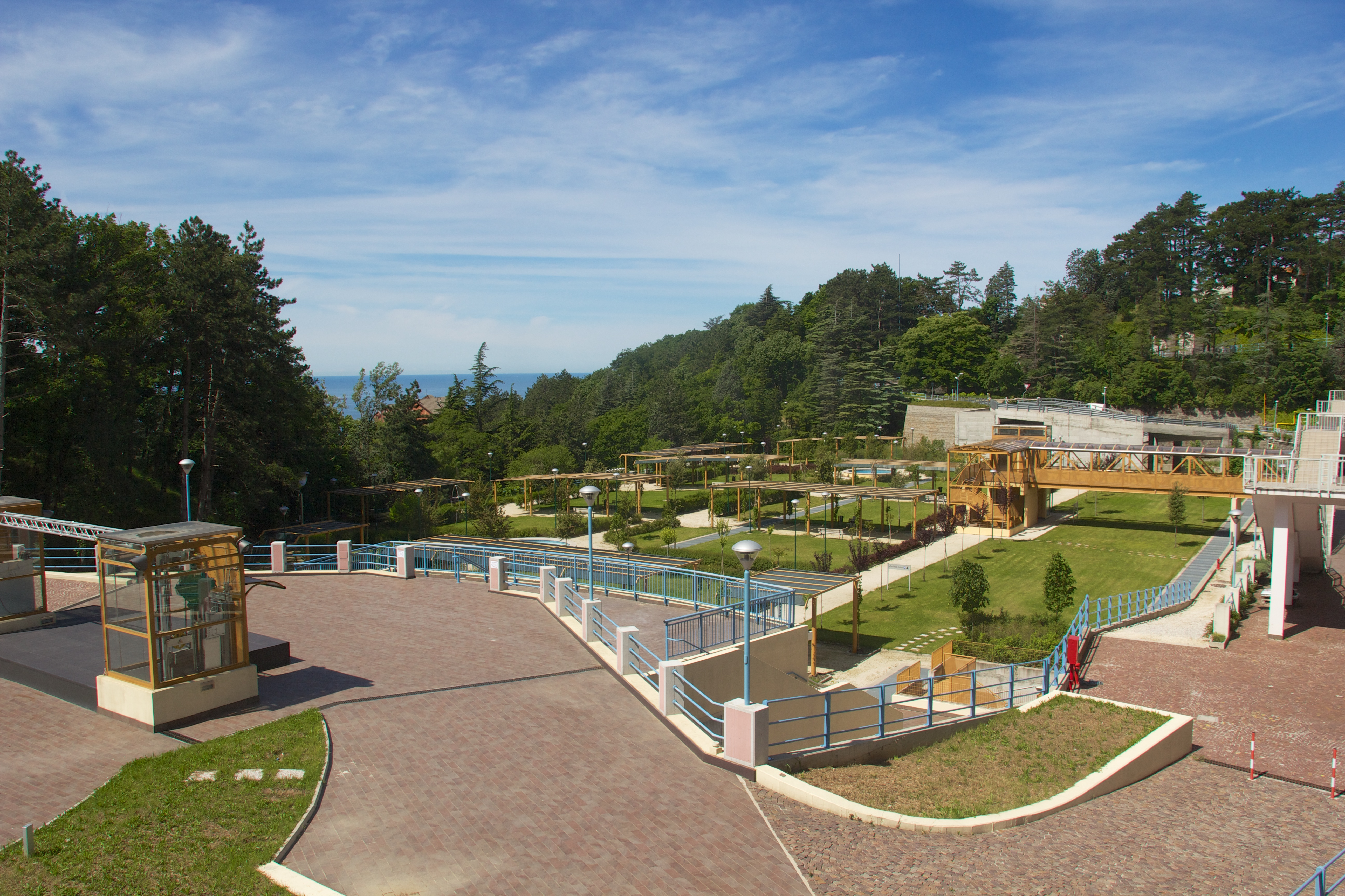 International School for Advanced Studies, Trieste.